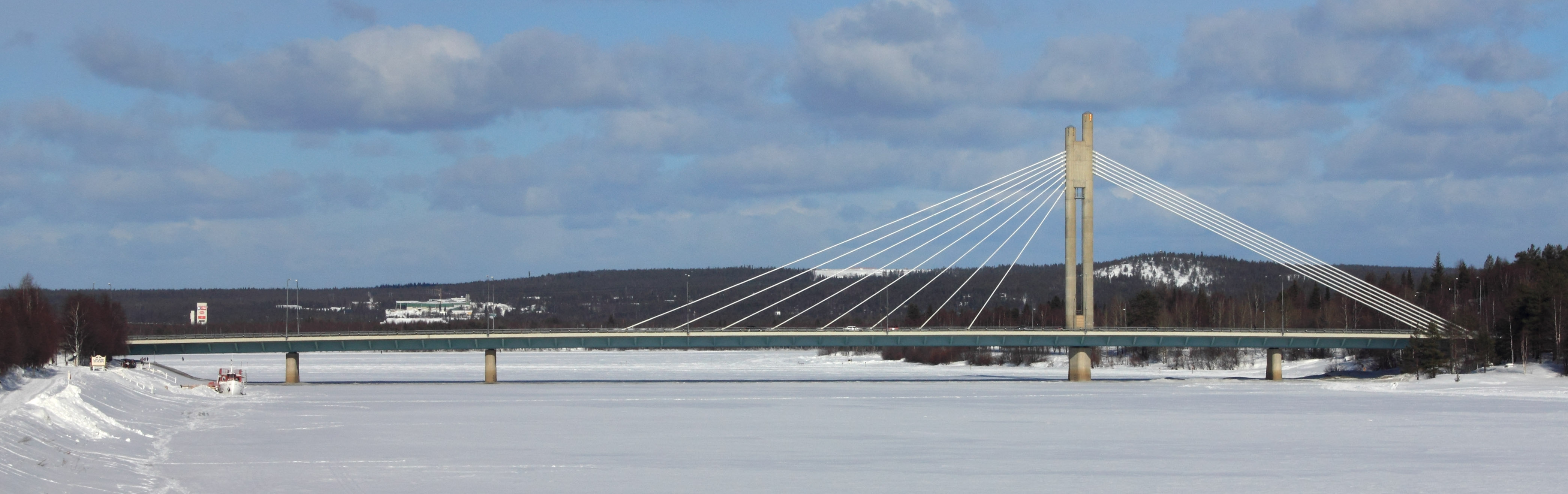 The Jätkänkynttilä tutform bridge on a spring day, March 23rd 2010.